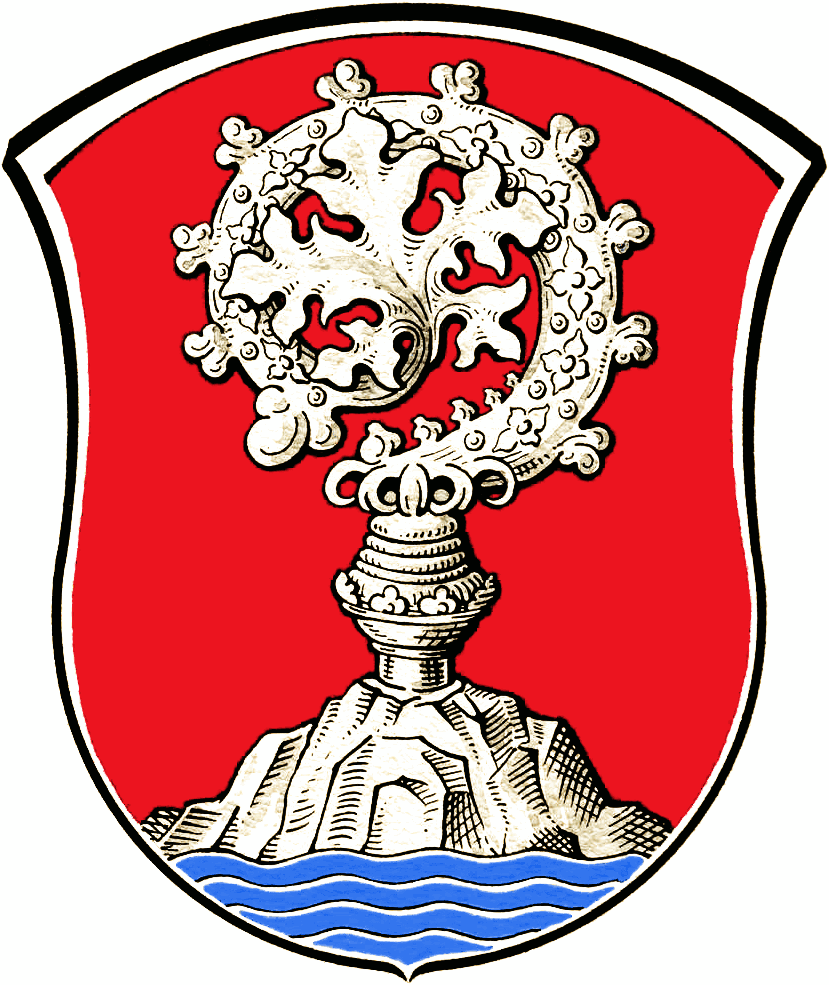 Coat of arms of Abtsteinach. The arms are identical to those of Ober-Abtsteinach.